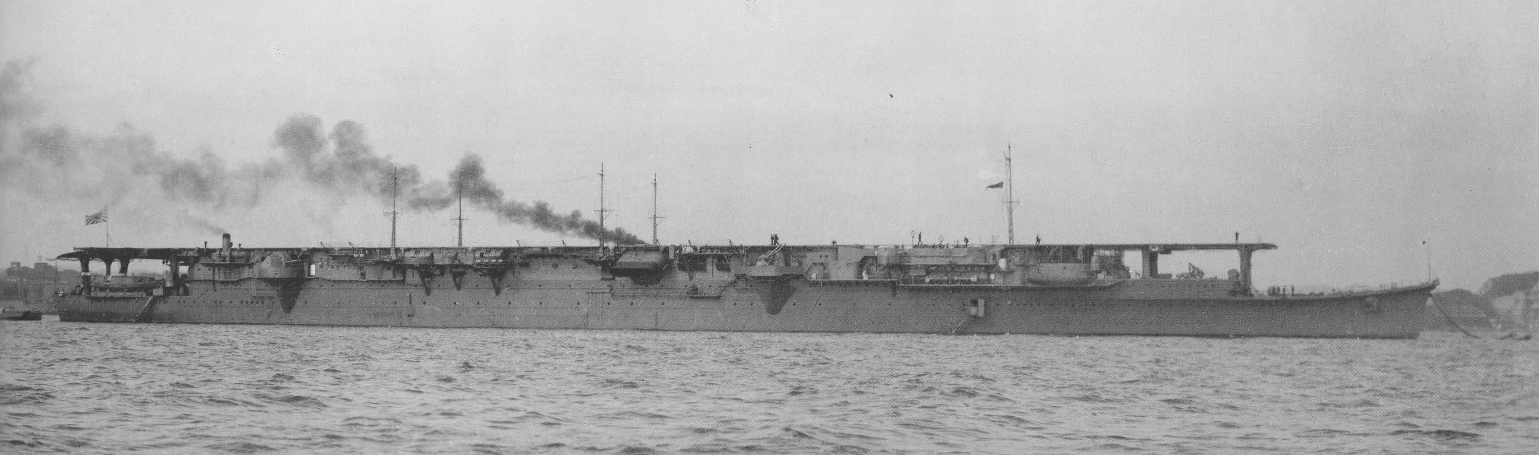 Imperial Japanese Navy aircraft carrier Shōhō at anchor at Yokosuka shortly after her conversion from a submarine tender to a light aircraft carrier.